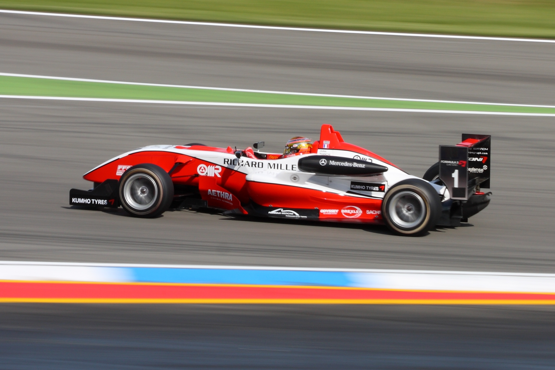 Formula 3 Euroseries, Hockenheimring, #1 Jules Bianchi